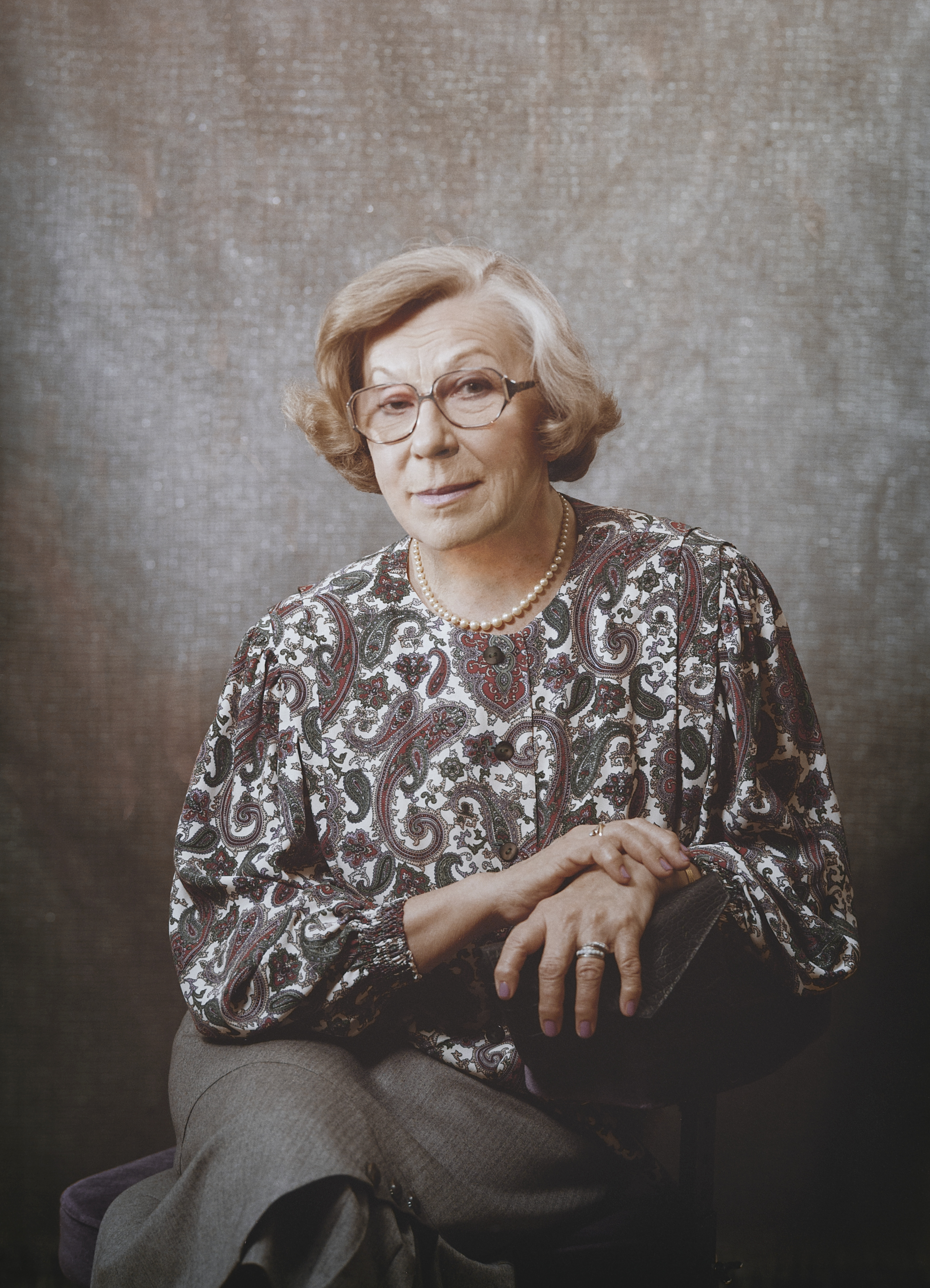 Photograph of the Finnish make-up artist Lilli Markkanen (1920–2003).